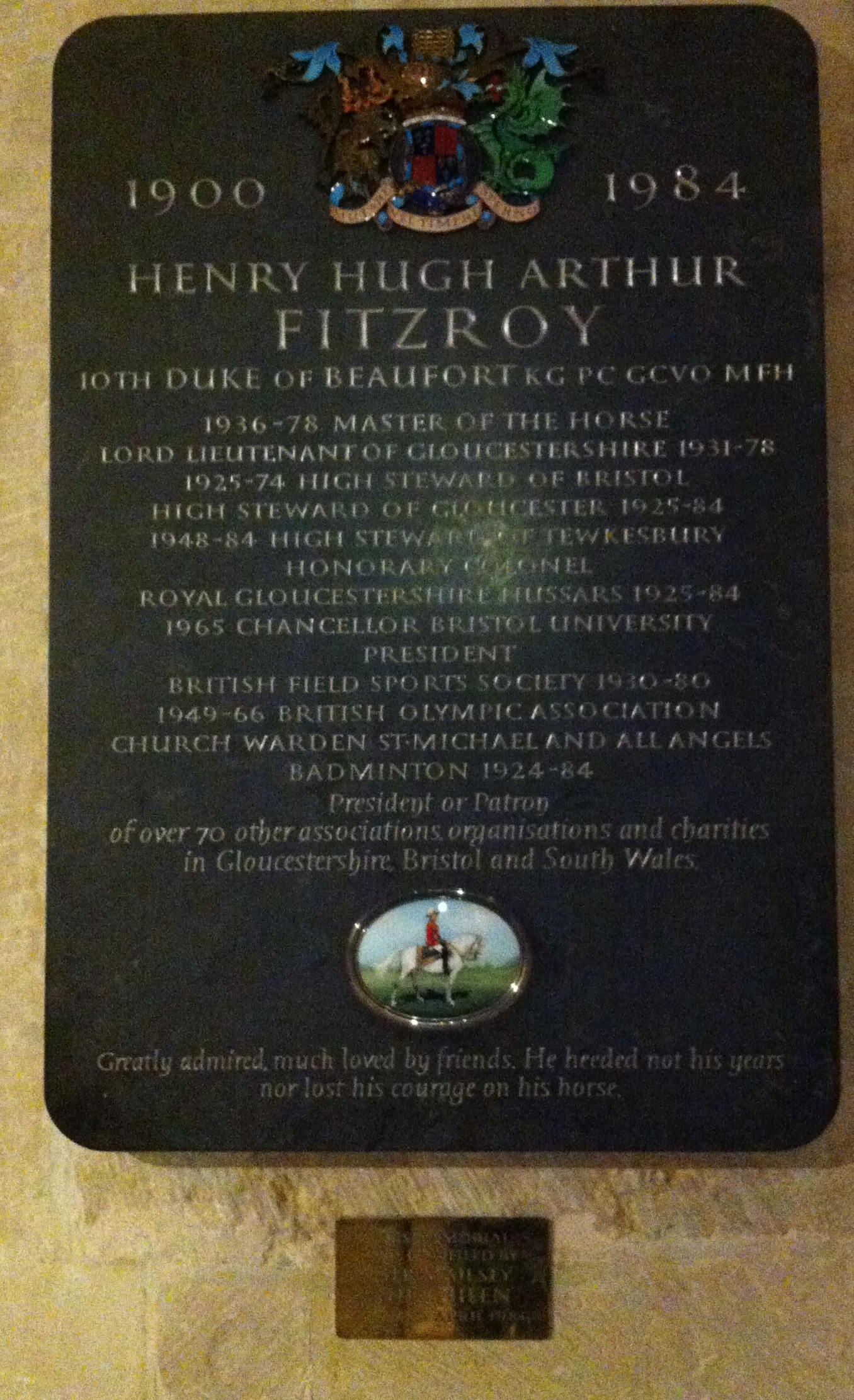 Henry Hugh Arthur Fitzroy, 10th Duke of Beaufort (1900-1984)